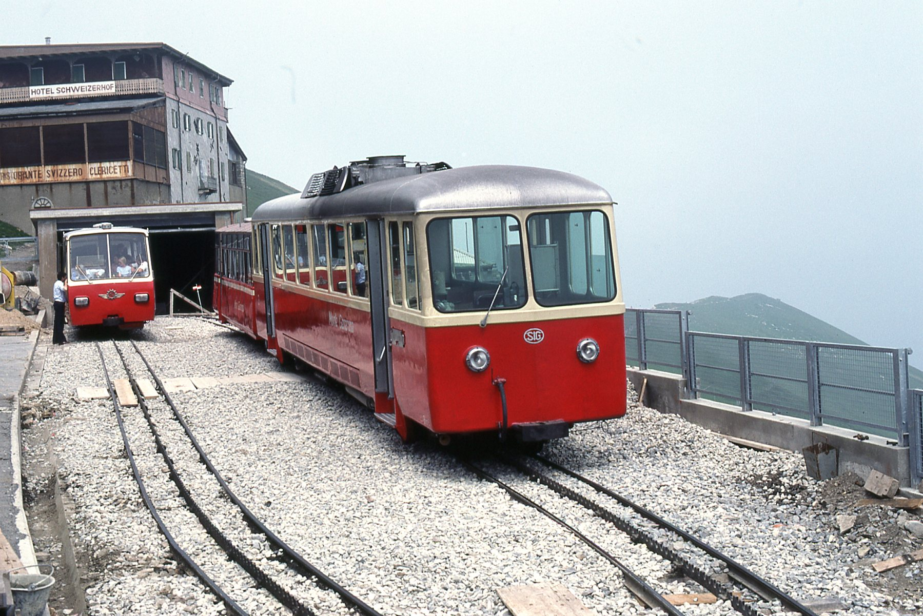 View of the Generoso Vetta train station of the Monte Generoso Railway a short time before the electrification in 1982. On the track to the right is a railcar Bhm 2/4, on the left in the background is a railcar Bhm 1/2.